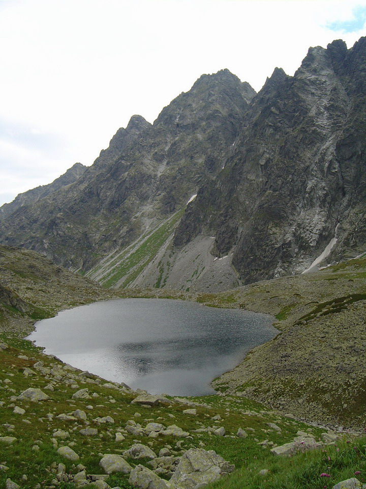 Satan over Male Hincovo pleso